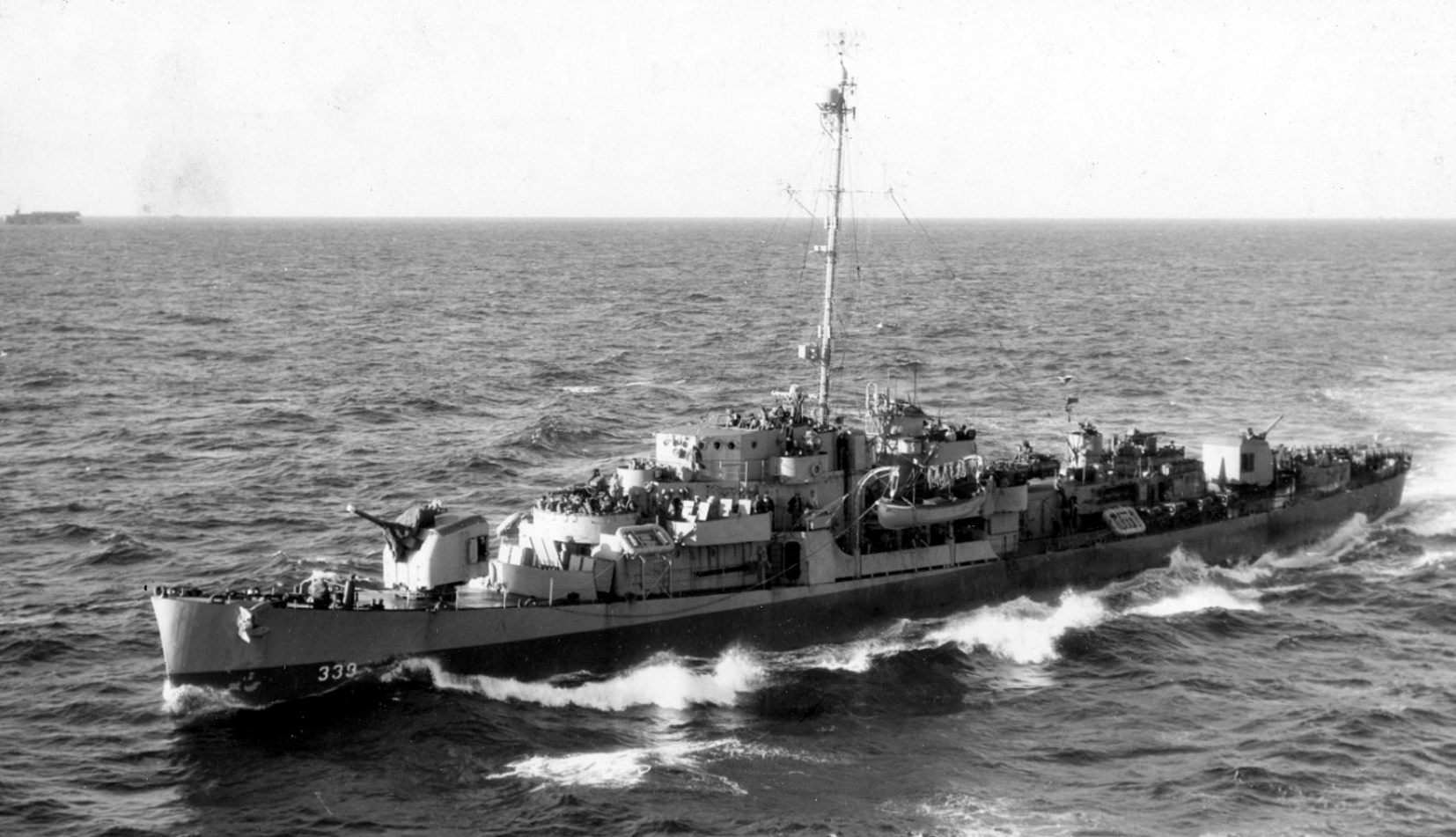 The U.S. Navy destroyer escort USS John C. Butler (DE-339) coming alongside the escort carrier USS Sargent Bay (CVE-83), on 1 March 1945.